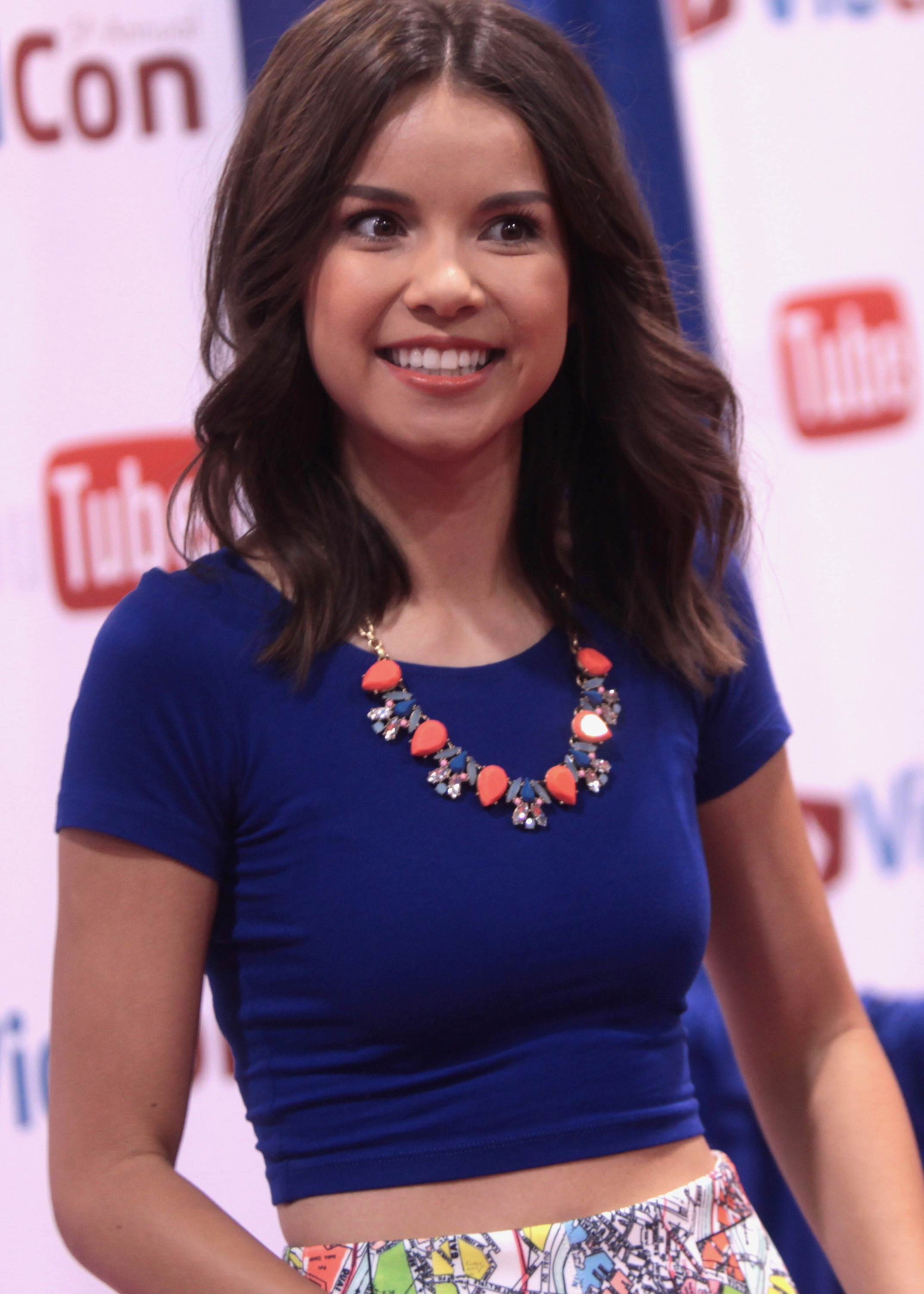 Ingrid Nilsen speaking at the 2014 VidCon at the Anaheim Convention Center in Anaheim, California.